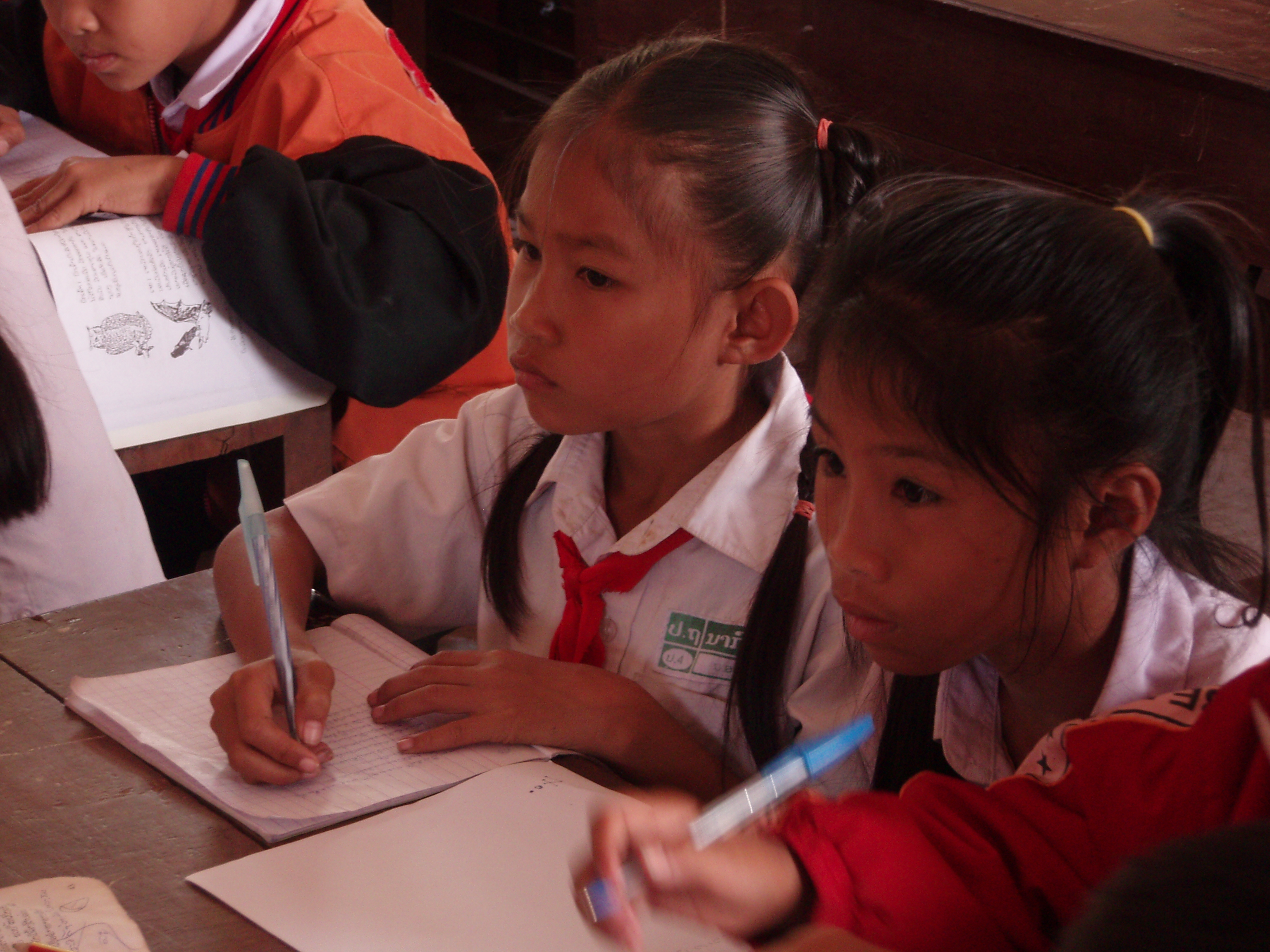 Pupils in a small village school in southern Laos